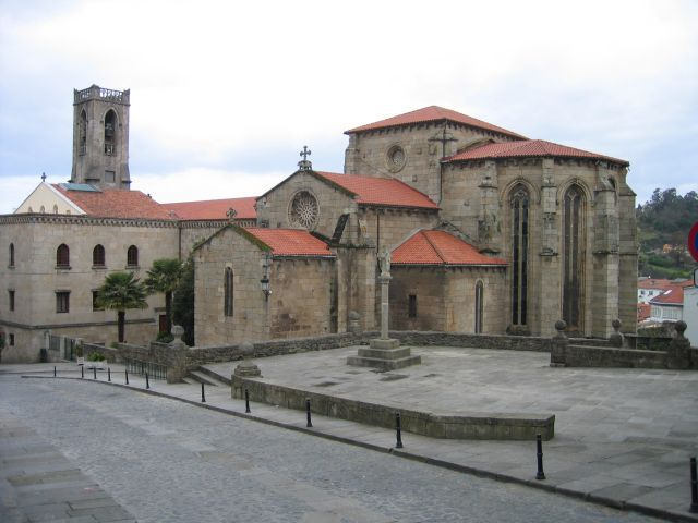 St Francis Church in Betanzos